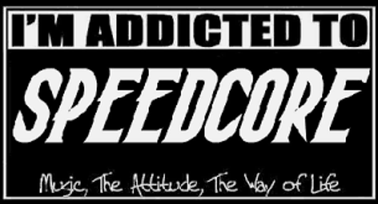 Common Speedcore Logo